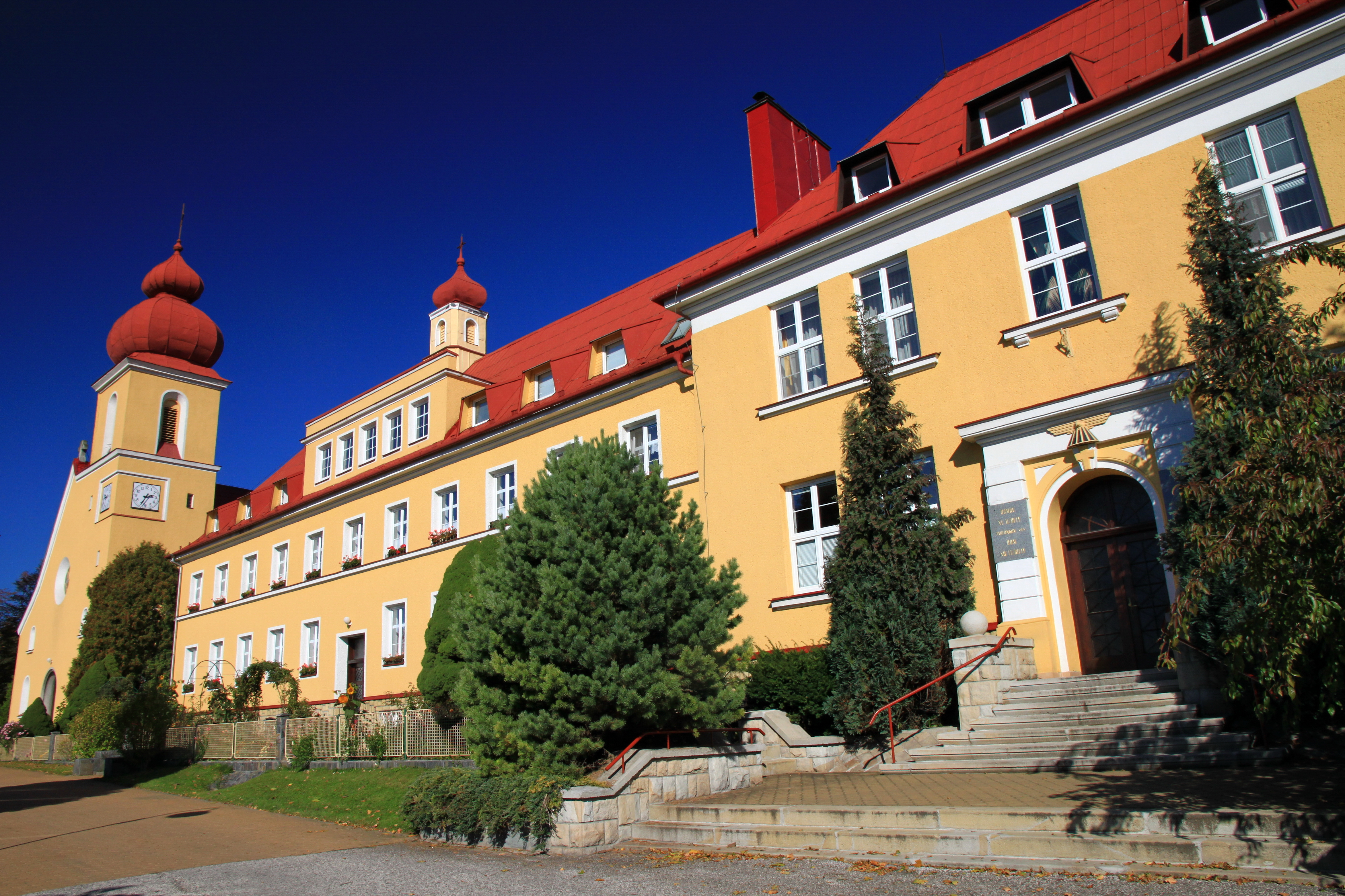 Jablunkov, monastery with former monastery church of Sisters of Saint Elizabeth, Bezručova Street 395